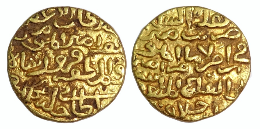 Gold Tanka of Firoz Shah Tughlaq